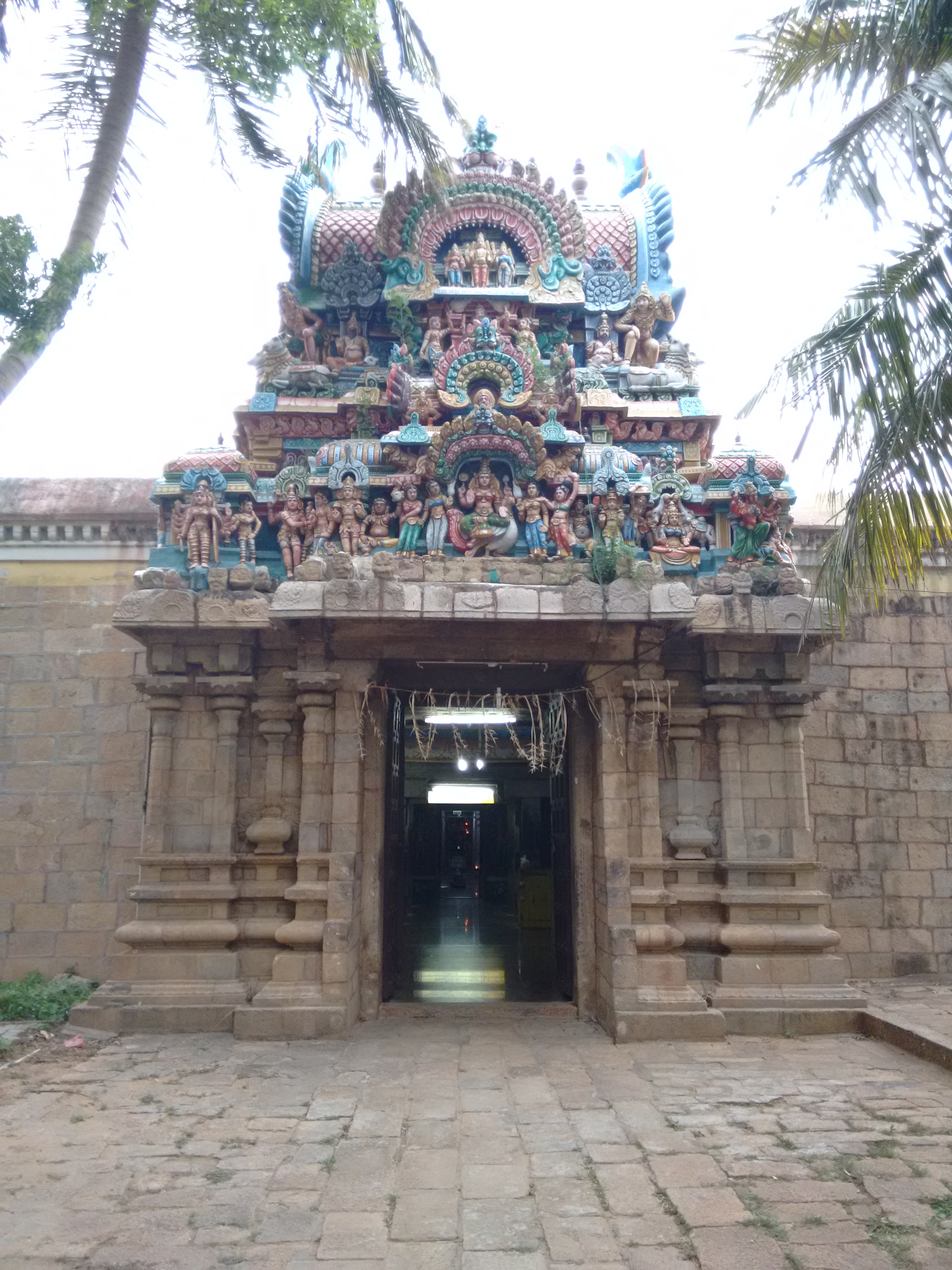 Tiruvalanchuli Siva temple amman shrine திருவலஞ்சுழி வலஞ்சுழிநாதர் கோயிலின் அம்மன் சன்னதி